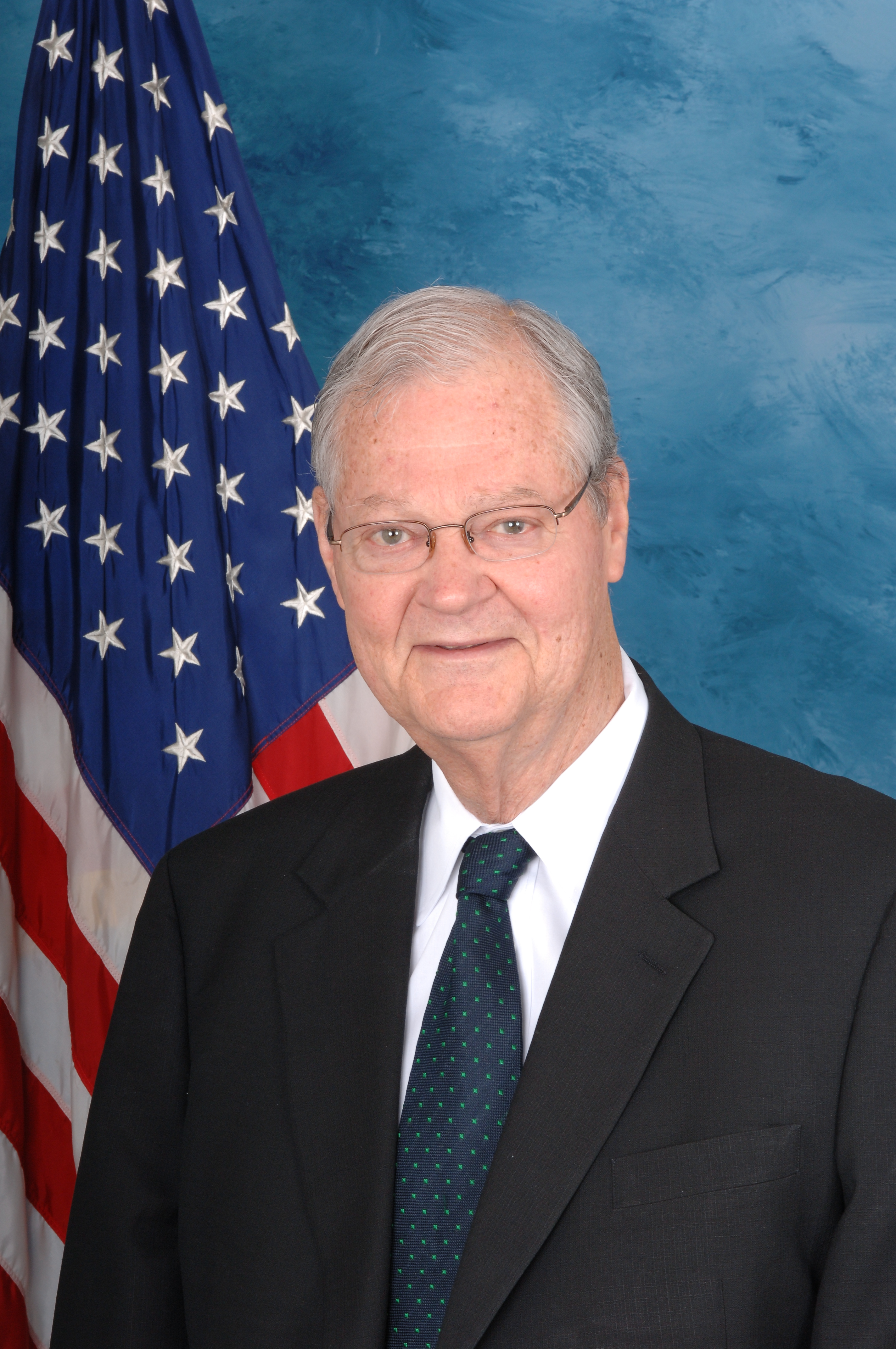 Ike Skelton, member of the United States House of Representatives.